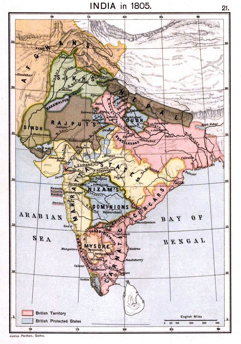 Political Map of India 1805